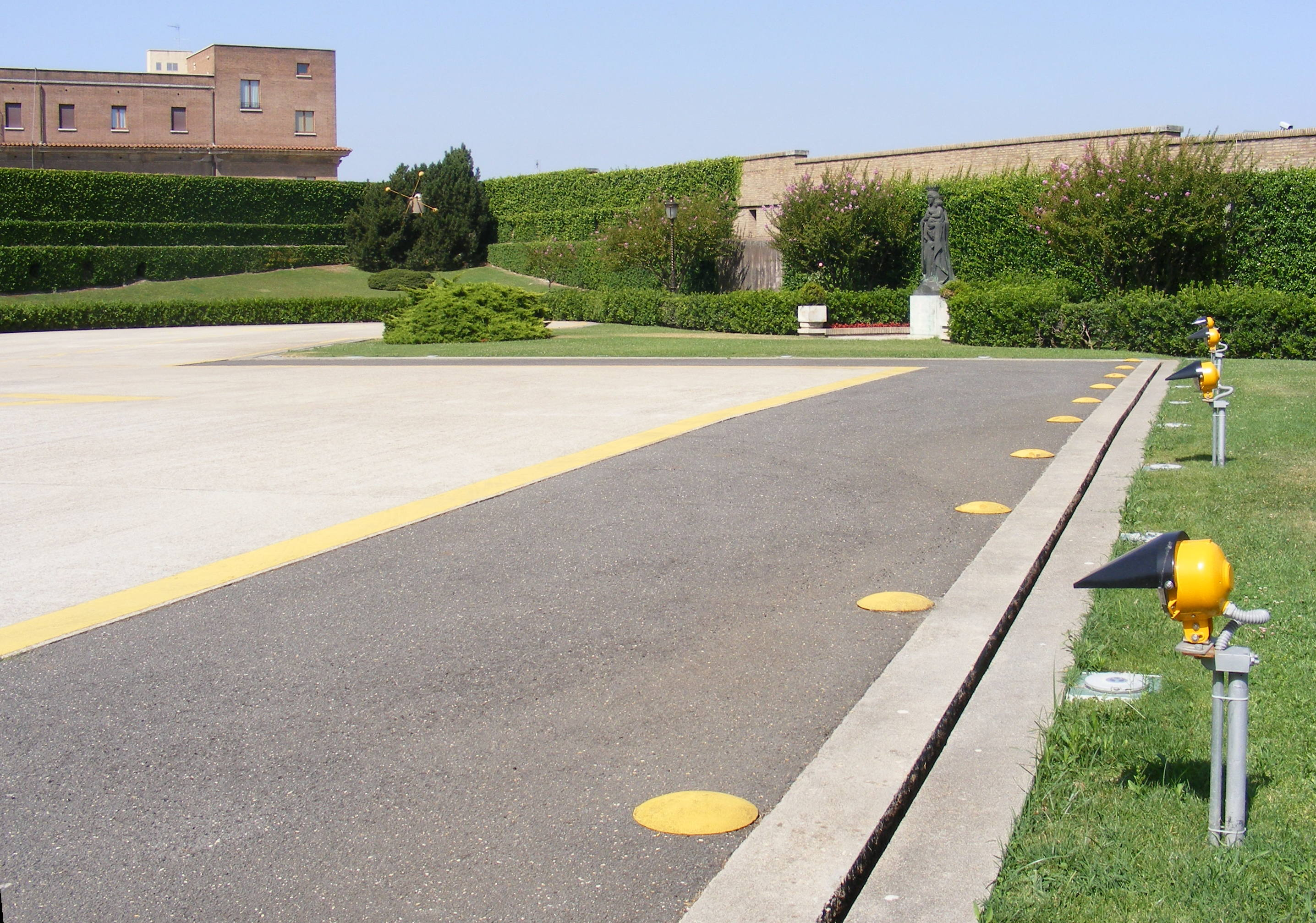 Heliport in Vatican City.